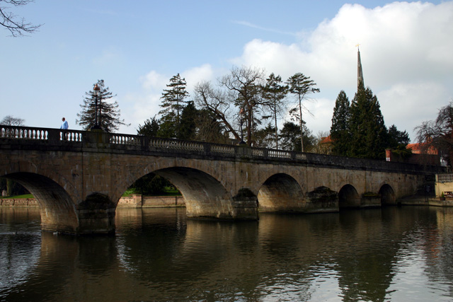 Wallingford Bridge North. Taken from the NE bank of the Thames. The church on the far side is hidden by the trees.